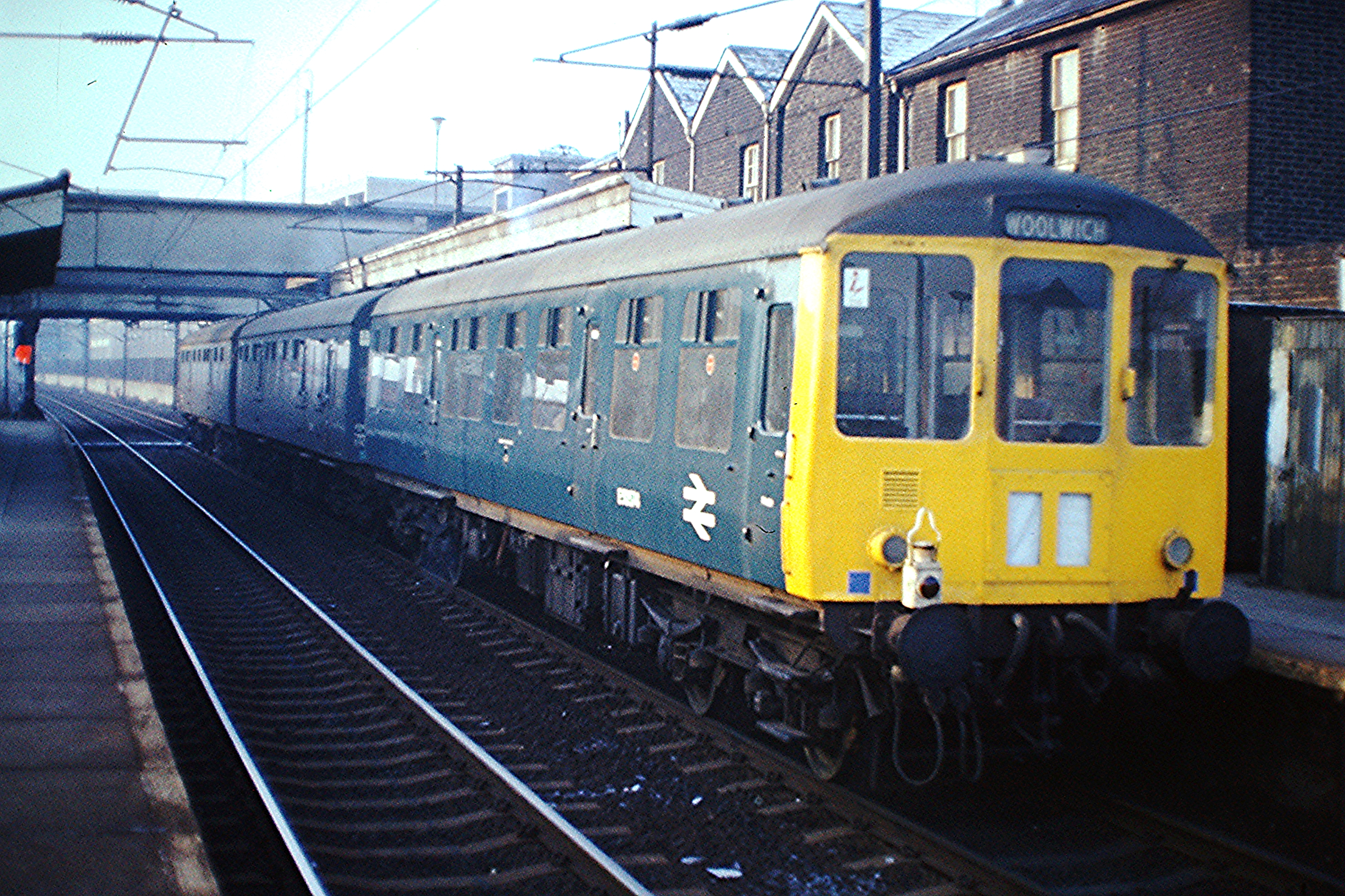 Birmingham RC&W Co.3-car Local Passenger dmu (Class 104) made up of cars from a variety of units: Nos.M50564 (Class 104/1 ex-1958 4-car unit), M59182 (Class169 ex-1957 batch 3-car unit), M50594 (Class 104/2 ex-1958 batch power twin) in BR Rail Blue livery with all yellow front awaiting departure at Tottenham Hale on a Stratford - North Woolwich service, 03/76. Scanned from a slide taken on an Exacta camera.